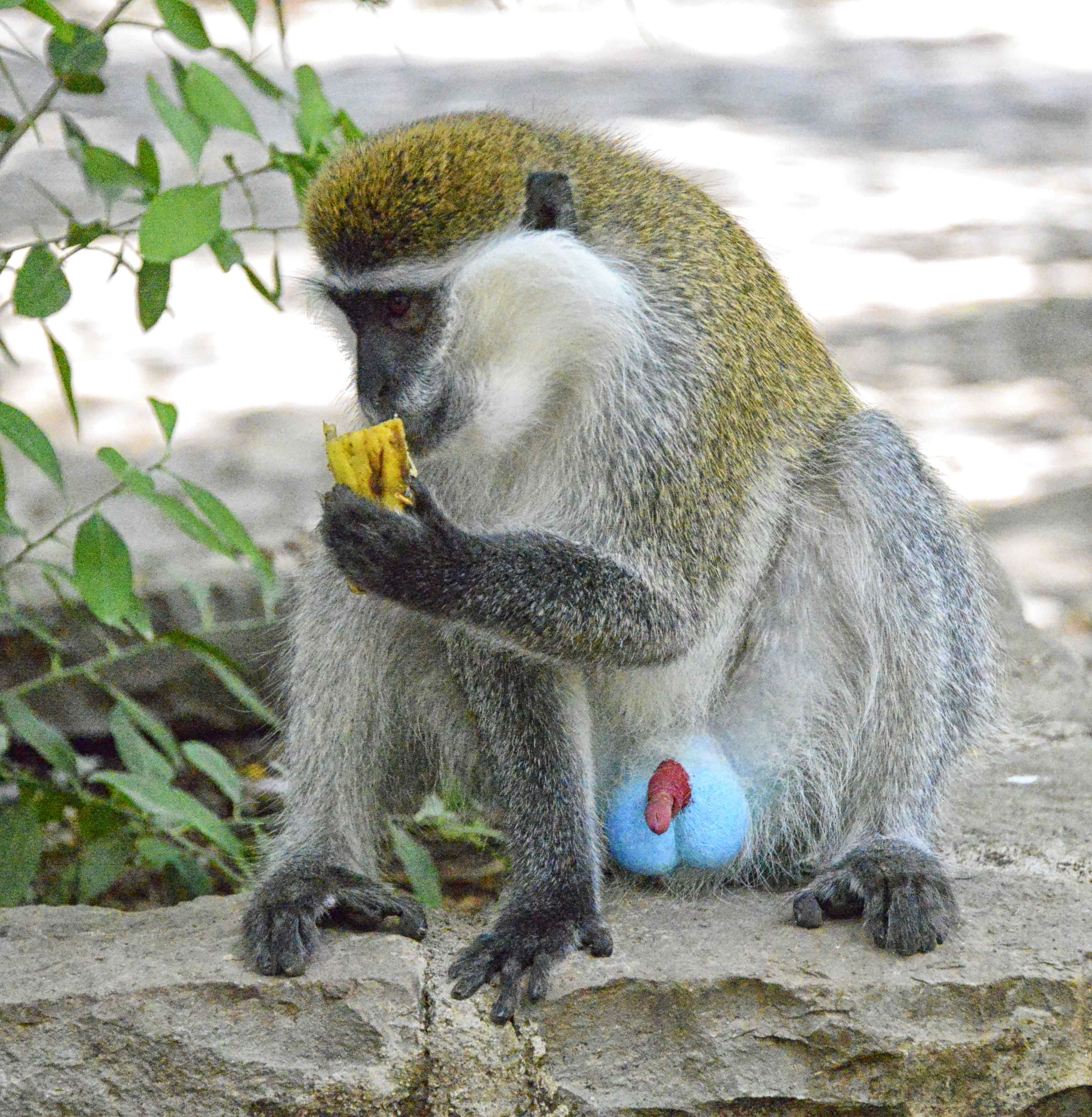 Grivet Monkey, Ethiopia